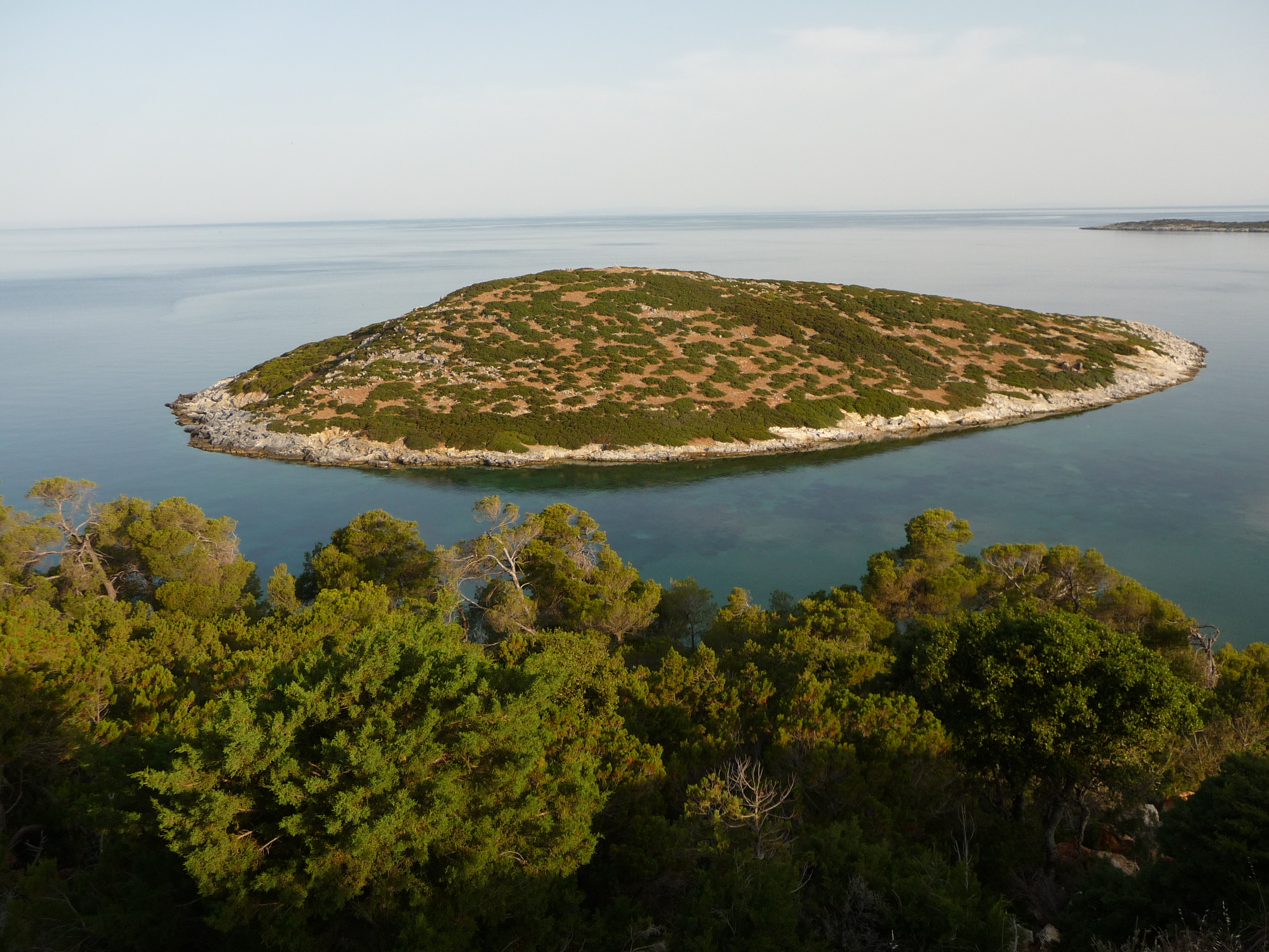 This is a photography of Natura 2000 protected area with ID GR2420009